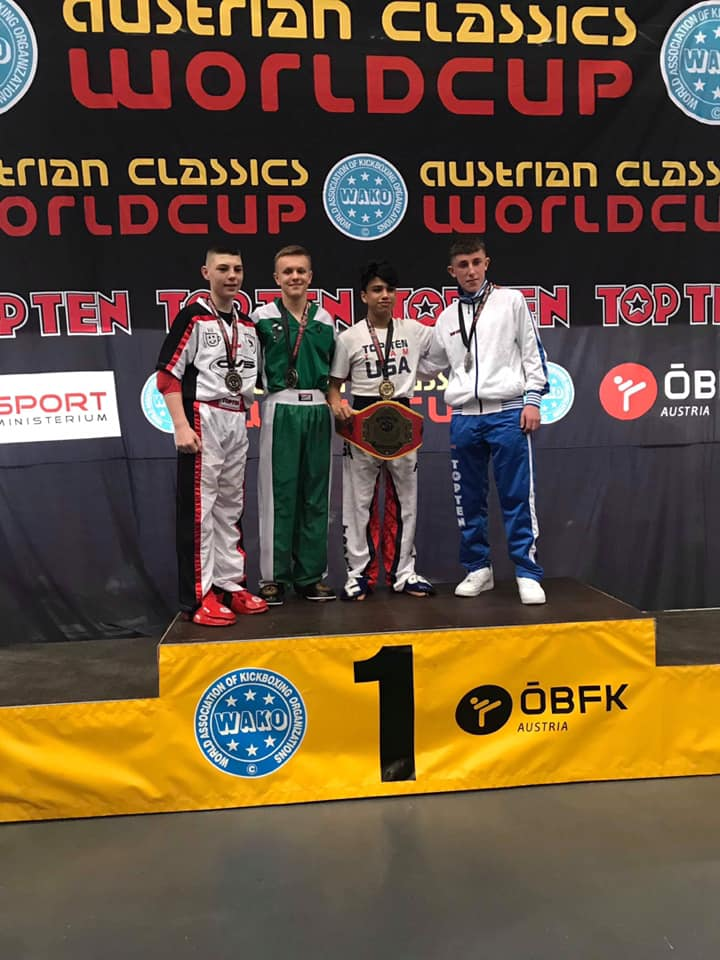 Austrian Classics 2019 World Cup WAKO